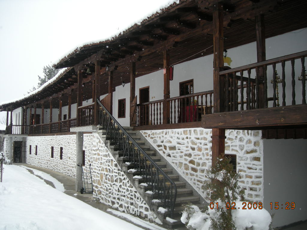 "Saint George" monastery, Hadzhimovo, Bulgaria